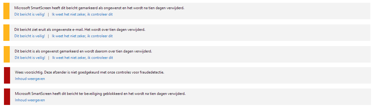 These are the different SmartScreen warnings an user may see.